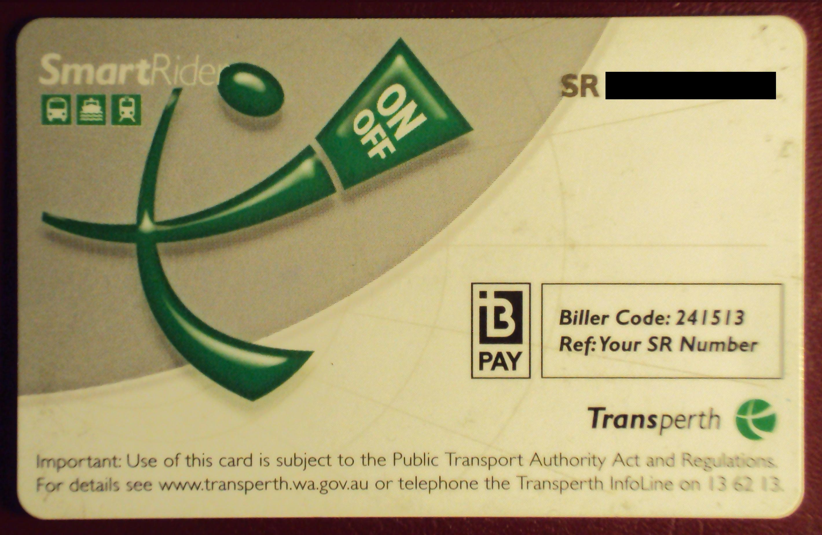 A photo of a SmartRider card that can be used on Perth's Public transport network, Transperth.